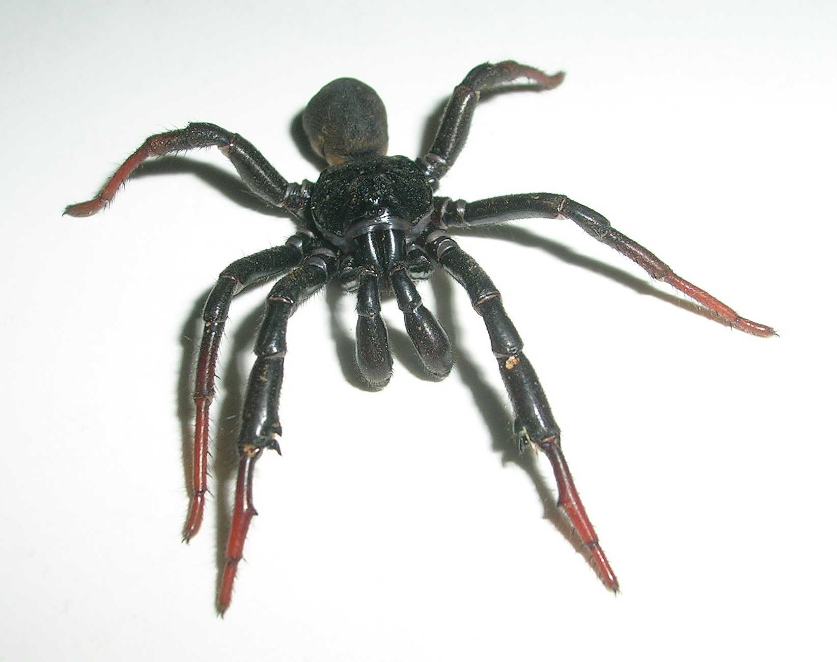 Idiops constructor (male) Idiopidae from Bannerghatta, Bangalore Determination courtesy Manju Siliwal manjusiliwal at